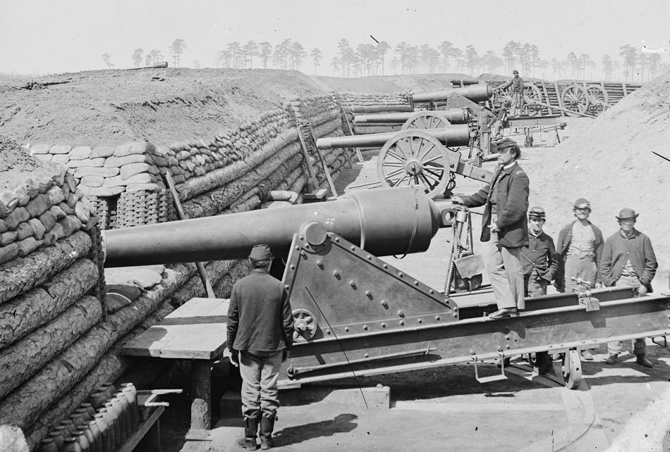 Fort Brady, Va. Battery of Parrott guns manned by Company C, 1st Connecticut Heavy Artillery